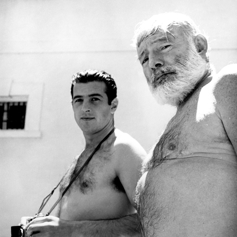 Antonio Ordonez and Ernest Hemingway, 1959. Malaga, Spain, "La Consula" (Davis Estate).